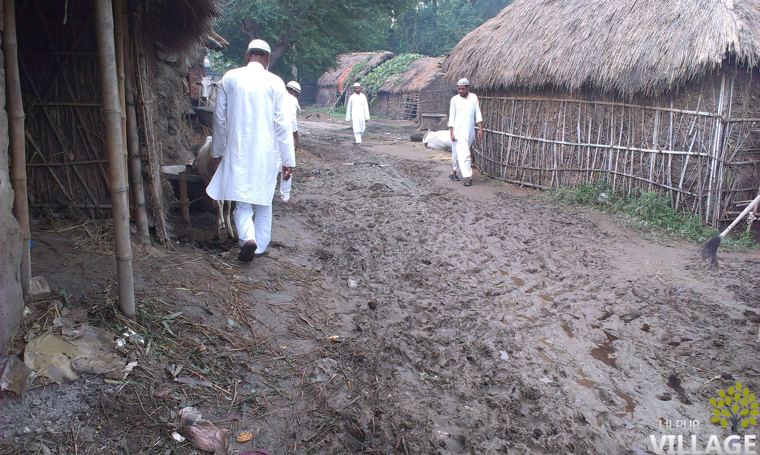 photo describe about road condition.